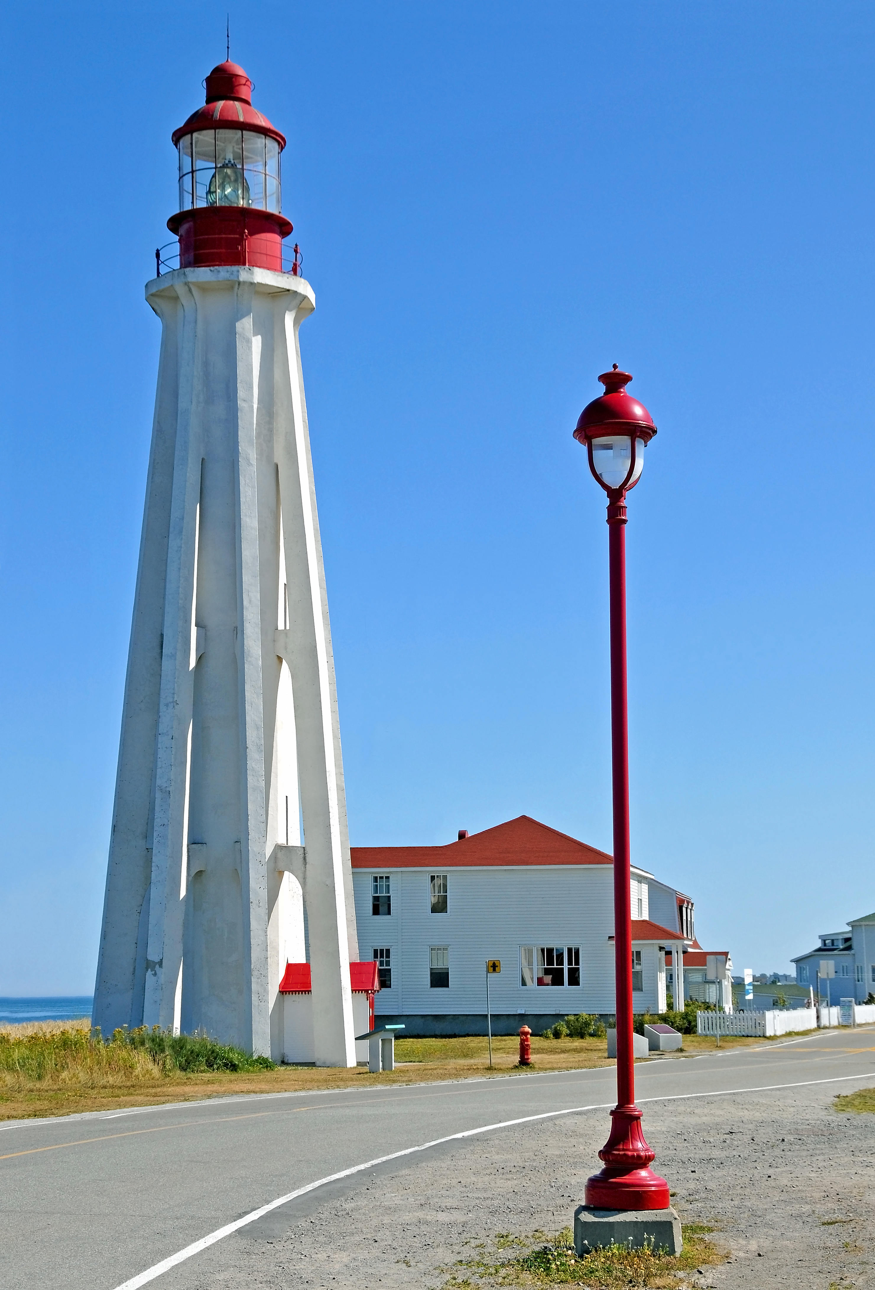 Pointe-au-Père Lighthouse played a primordial role in the history of navigation on the St. Lawrence River. The existing lighthouse, built in 1909, is the second highest in Canada (128 steps of the Lighthouse and has a height of 33 meters (108’). The tower of this 3rd Lighthouse is an octagonal shape, built of re-enforced concrete and strengthened by eight pillars of the same materiel, a rare style for Canadian lighthouses. The optic lens installed in the new lighthouse was a marvel of precision. At the beginning of the century, the high volume of traffic made it necessary to construct a new better equipped Lighthouse. In 1908, this site was chosen to install a stronger light. The new lens had an internal diameter of one meter and a focal distance of half a meter. In the Spring of 1909, the new 33 meters (108’) high Lighthouse was inaugurated for the Navigation Season. It is the second highest lighthouse in Canada. The light used the principle of concentrated beams and projected reflection by means of prisms and lenses. This device of glass and cooper weighed one and half ton, and rested in a bath of mercury to avoid friction while in motion. The movement of this device was similar to a Grand Father clock and weighed 272kg (600 lbs) which had to be rewound by hand. The mechanism was such that it turned once every 15 seconds, therefore there were 4 flashes of light every 7½ seconds (specific code for Pointe-au-Père). The lighthouse code at Cap-Chat was two flashes, Petit-Métis three and Pointe-au-Père four. Their codes helped mariners to locate their positions.